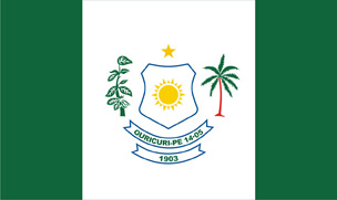 Law of Ouricuri